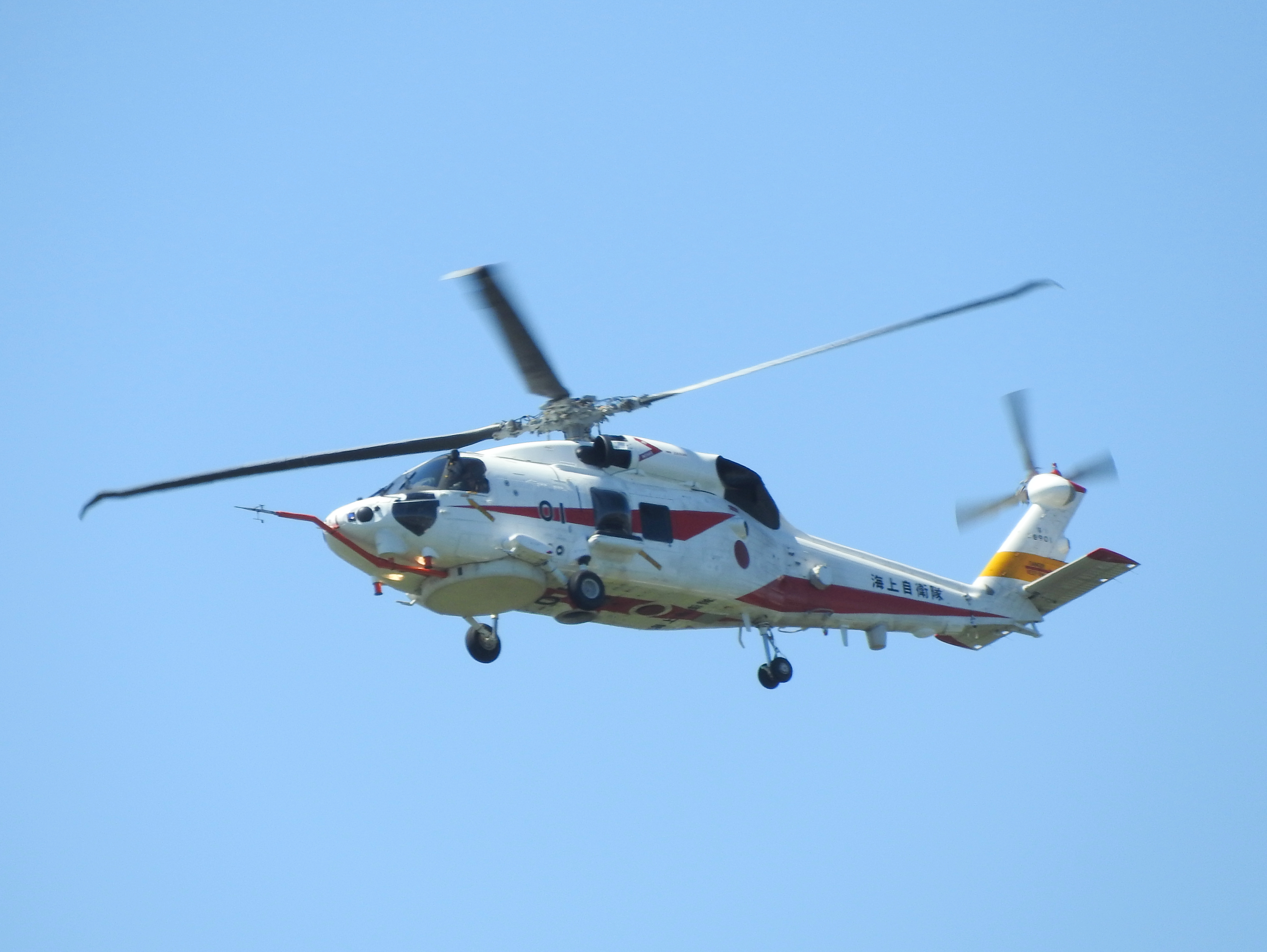 Sikorsky USH-60K #8901 of Air Development Squadron 51 of the Japan Maritime Self-Defence Force based at Naval Air Facility Atsugi in Kanagawa Prefecture, Japan